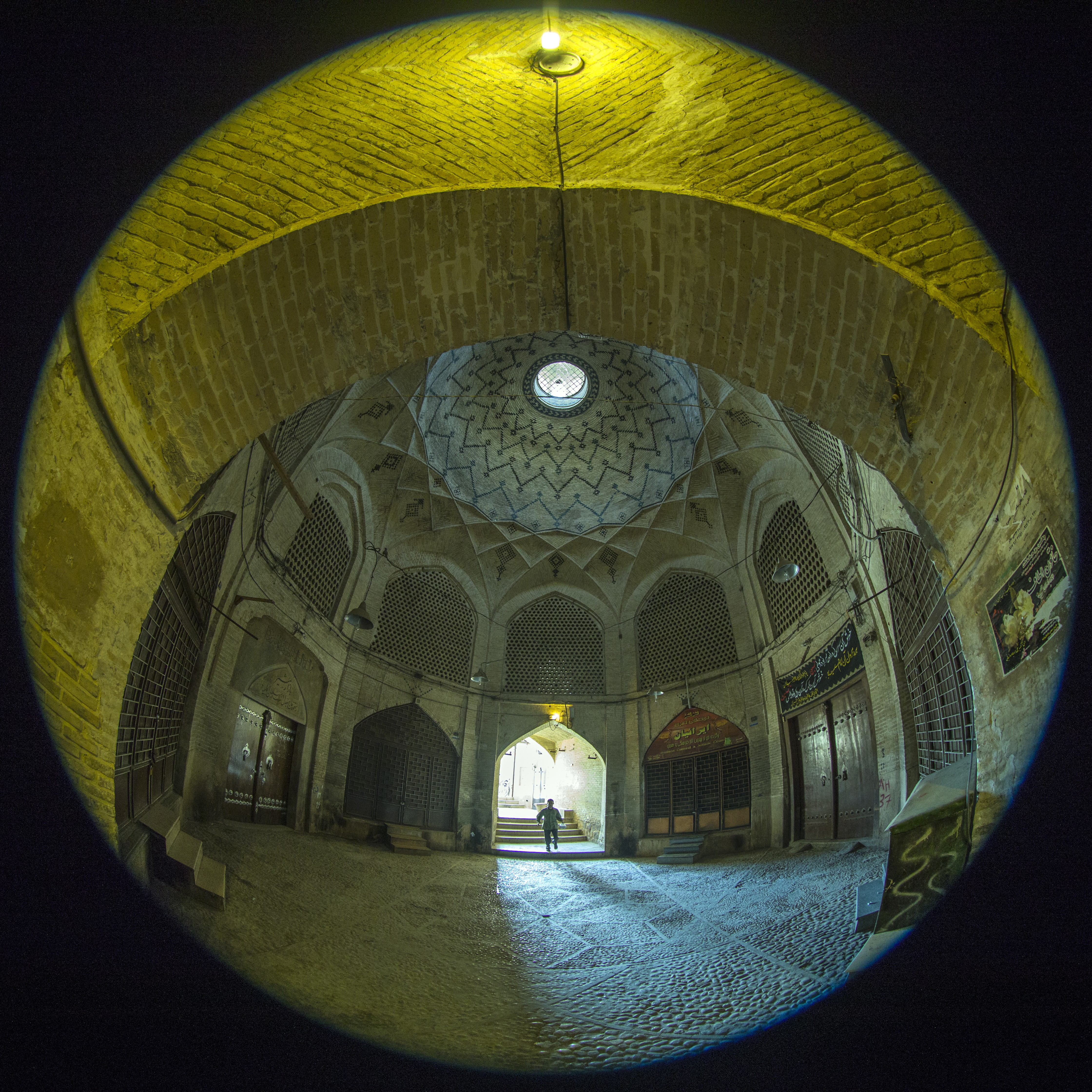 Saraye Moshir is traditional Bazaar in Shiraz, Southern city of Iran. It was founded more than 250 years ago under the order of government general of Fars province in Shiraz named Mirza Abolhassan MoshirolMolk. It was made as bazaar in the first days of its establishment. hereafter the time passed and history began. In some days this place was used as a museum and also as a traditional restaurant and Tea-Serving center.